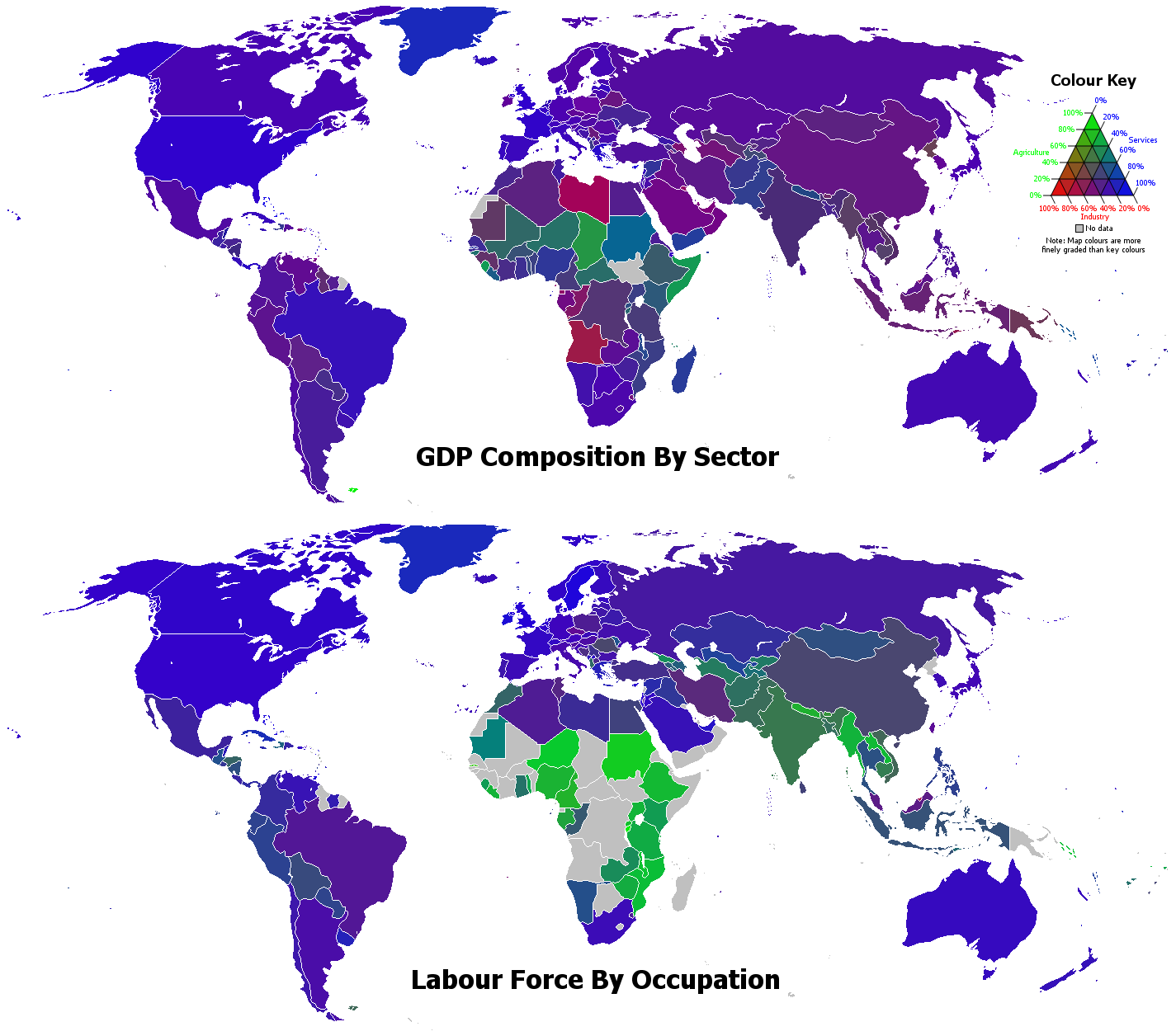 GDP Composition By Sector and Labour Force By Occupation, produced using data from the CIA World Factbook 2006. The green, red, and blue components of the colors of the countries represent the percentages for the agriculture, industry, and services sectors respectively, as summarized on the color key - for example, rgb(102,51,201) represents 20% agriculture, 40% industry, and 40% services.